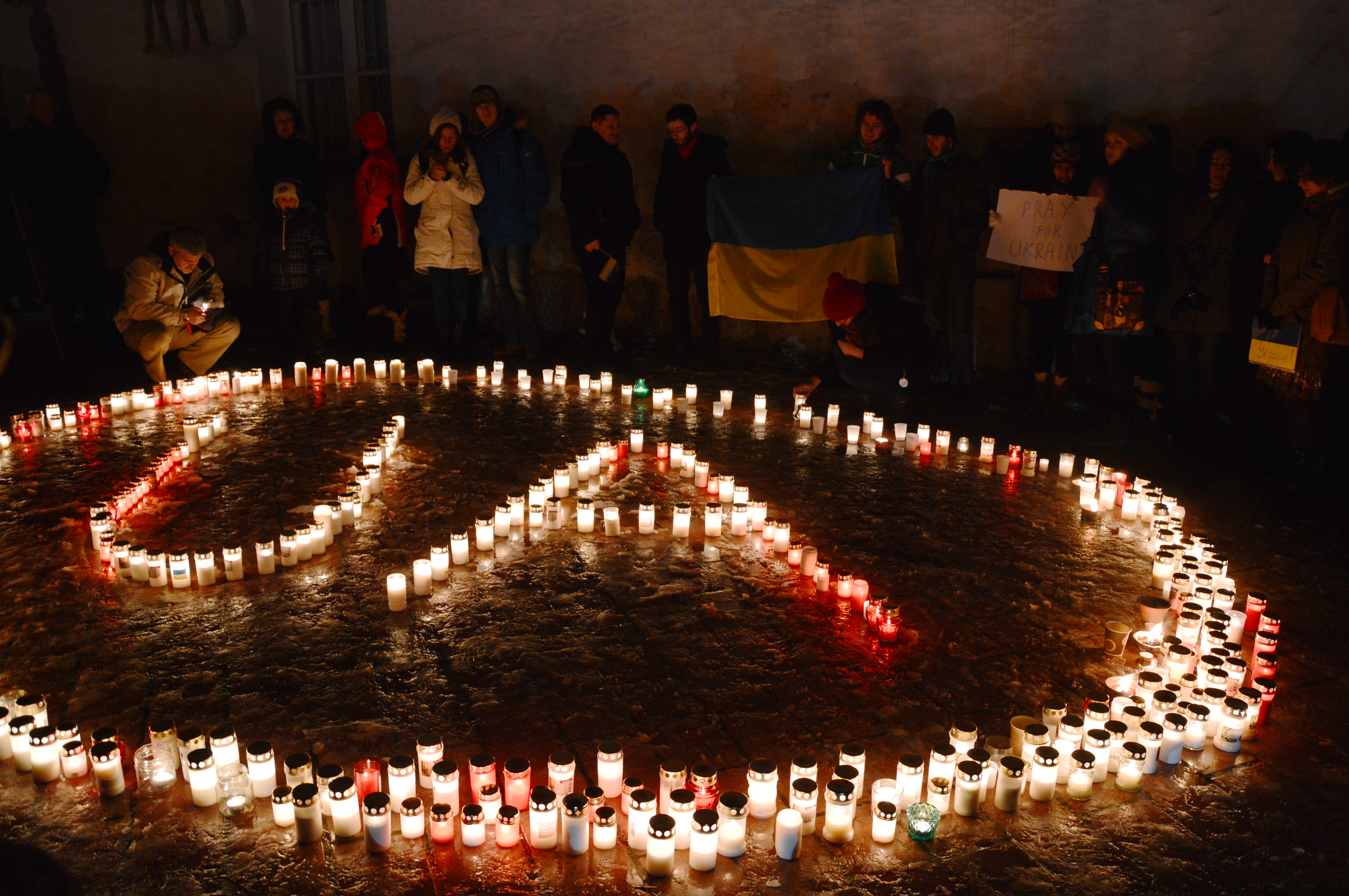 Public commemoration of Ukrainians who fell victims during the clashes in Kyiv.